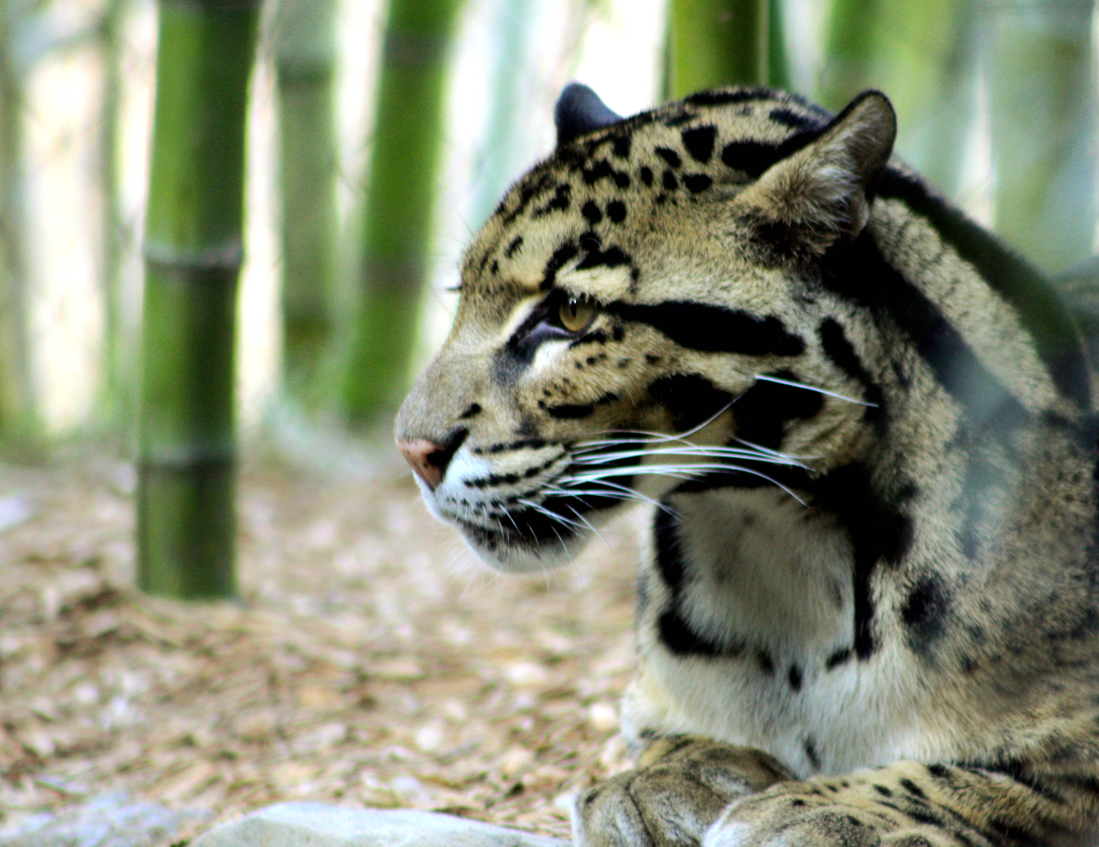 Clouded Leopard (Neofelis nebulosa) in Nashville Zoo.